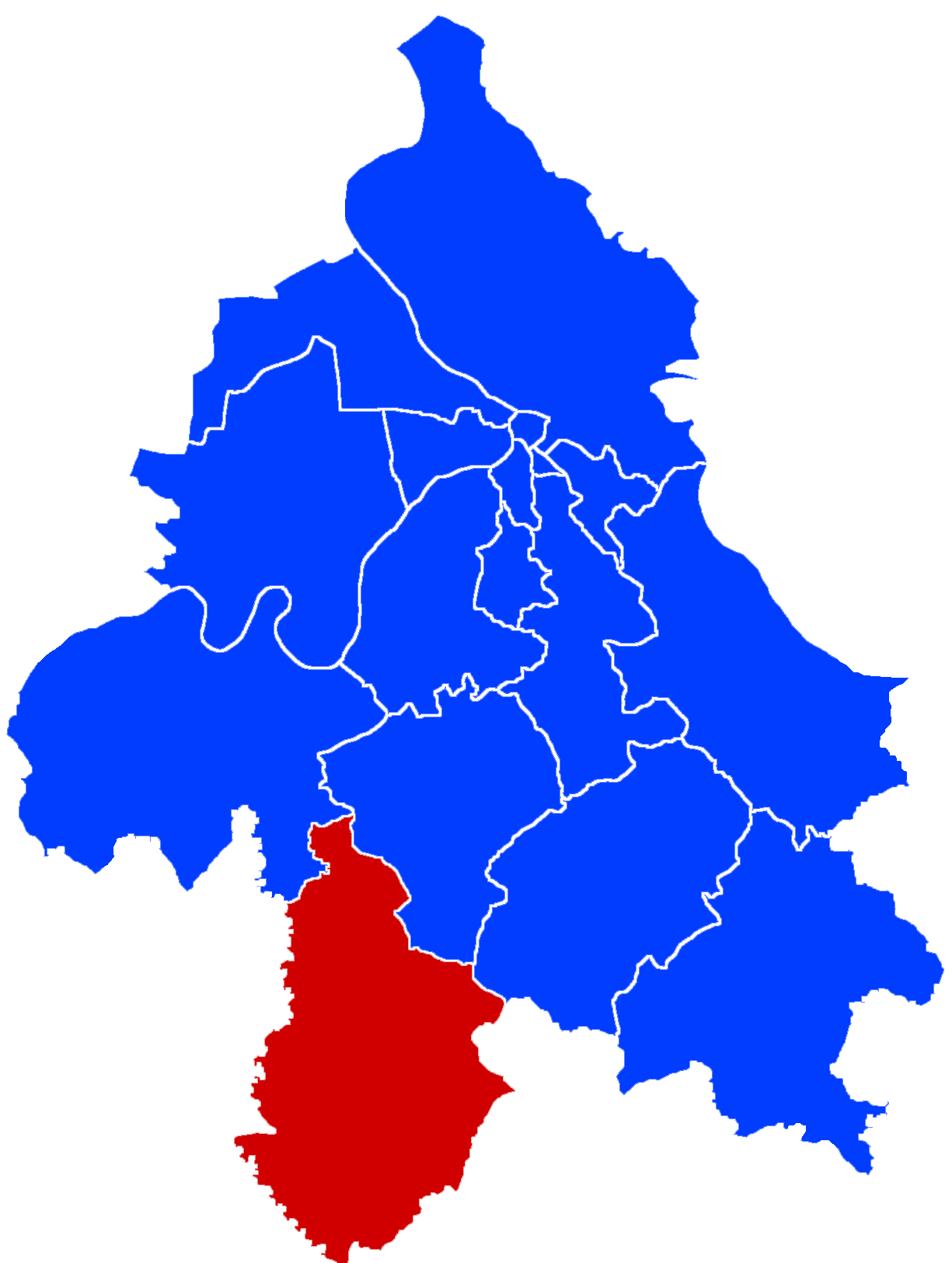 The graphical representation of the municipality of Lazarevac within the city of Belgrade